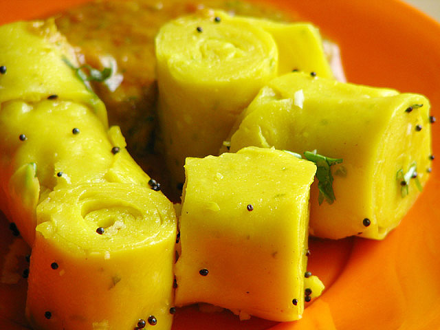 Very colourful snack which is spicy and eaten with a chutney.